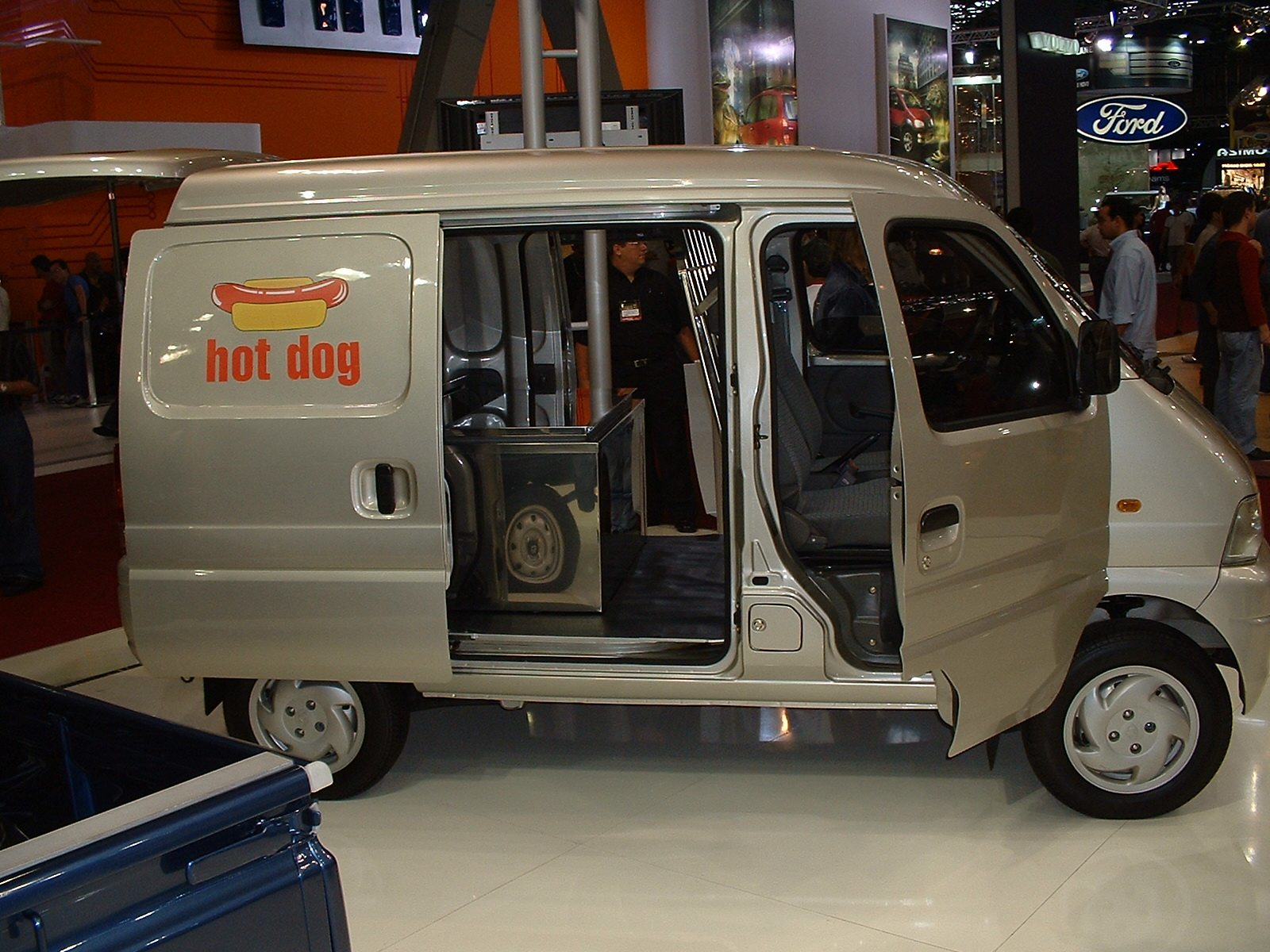 Tiger Star (also known as Chang'an Star) van in hotdog attire (Sao Paulo Autoshow 2006).